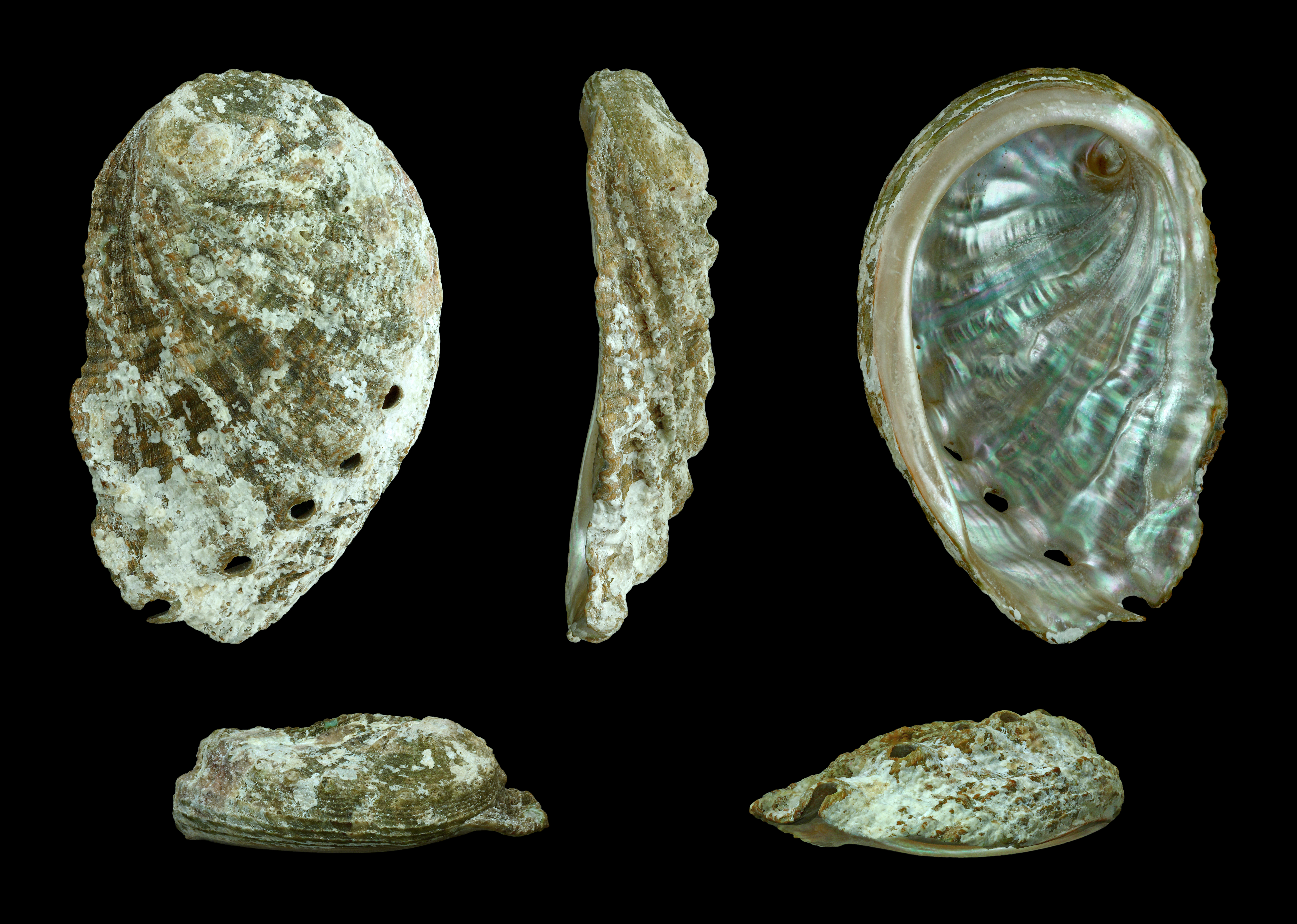 Lamellose Ormer; Length 4.0 cm; Originating from a rock pool south of Rovinj, Croatia; Shell of own collection, therefore not geocoded.